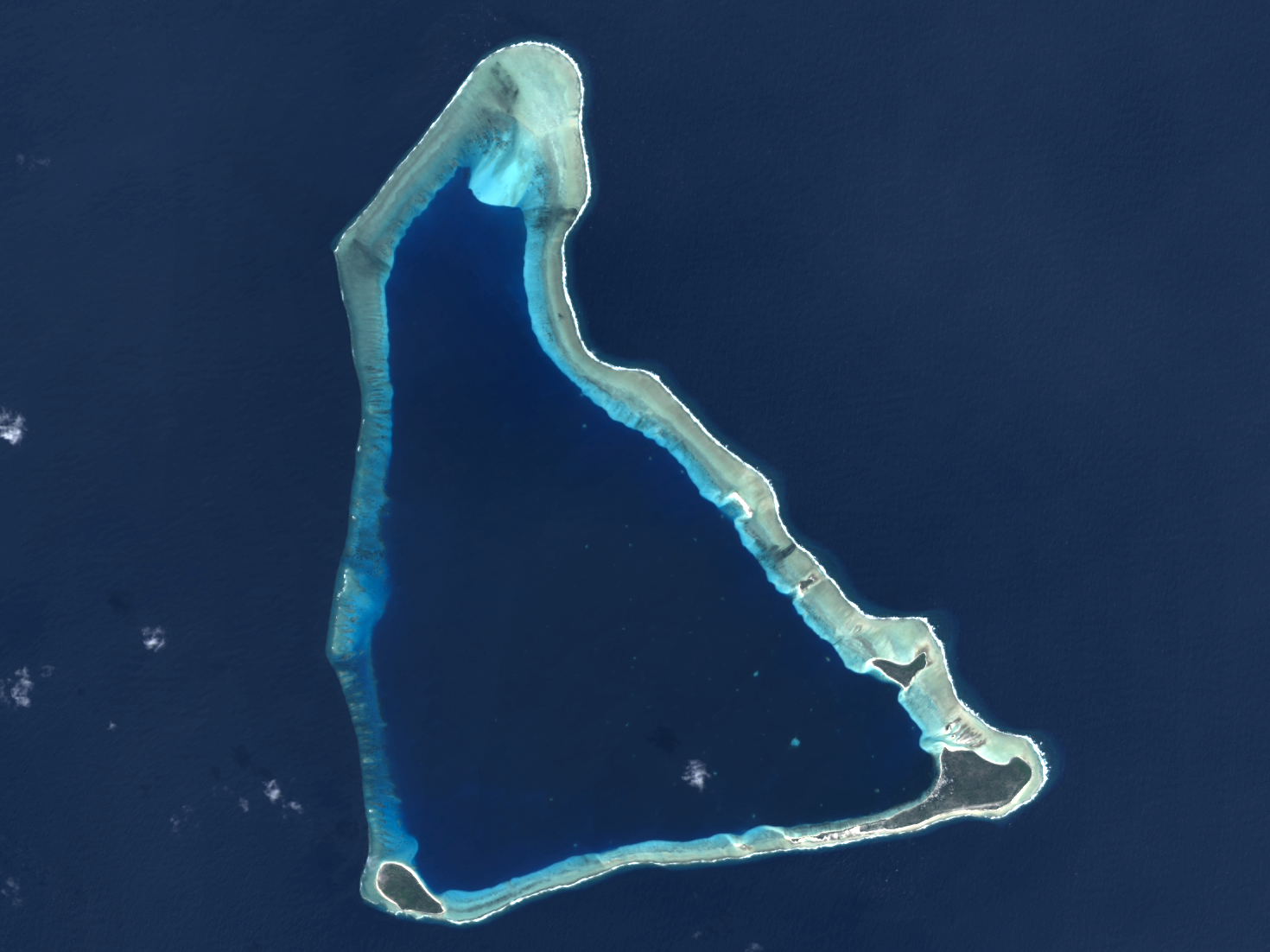 Composite "true color" multispectral satellite image of Utirik Atoll. NASA Landsat 8 OLI bands used were 4 (red), 3 (green), 2 (blue). Pan-sharpened with band 8. Manual color balance. Projection: UTM (zone 59), WGS84. Imagery courtesy NASA/USGS.